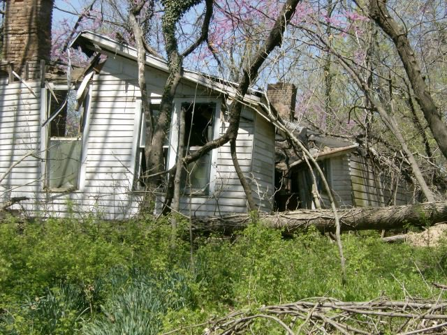 The Earle House as it appeared in April, 2010